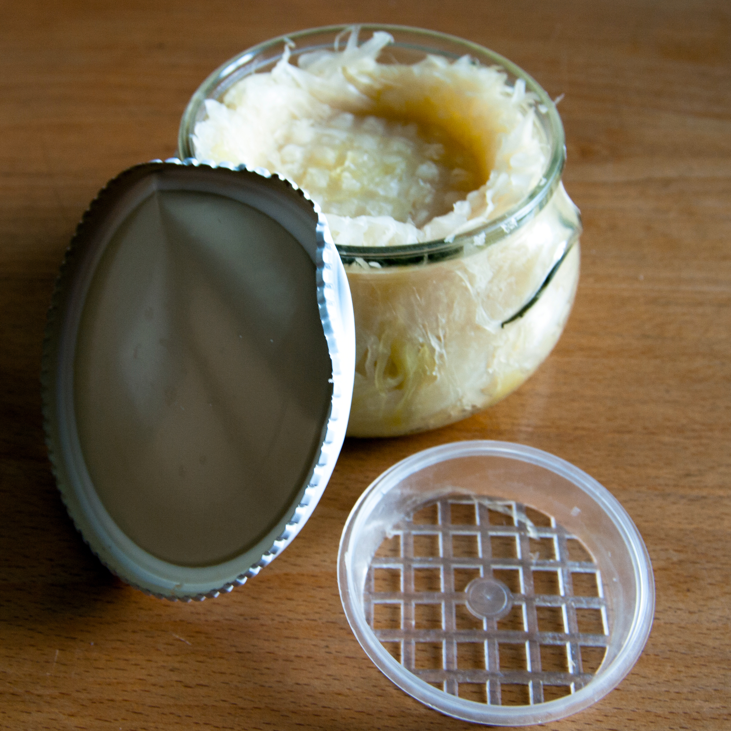 A glas of Sauerkraut from Wesselburen.